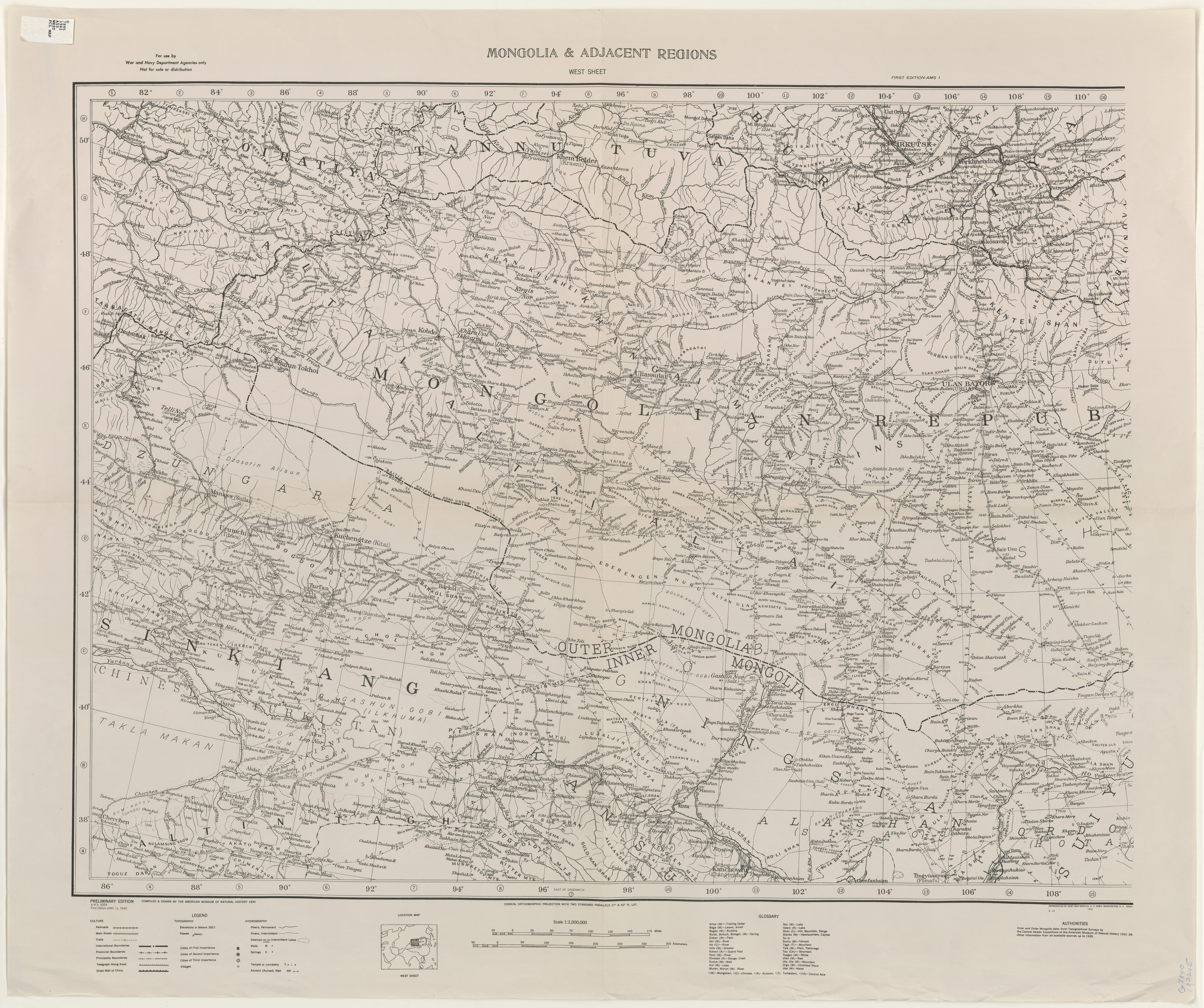 Series 5204, U.S. Army Map Service, 1942 West / American Museum of Natural History